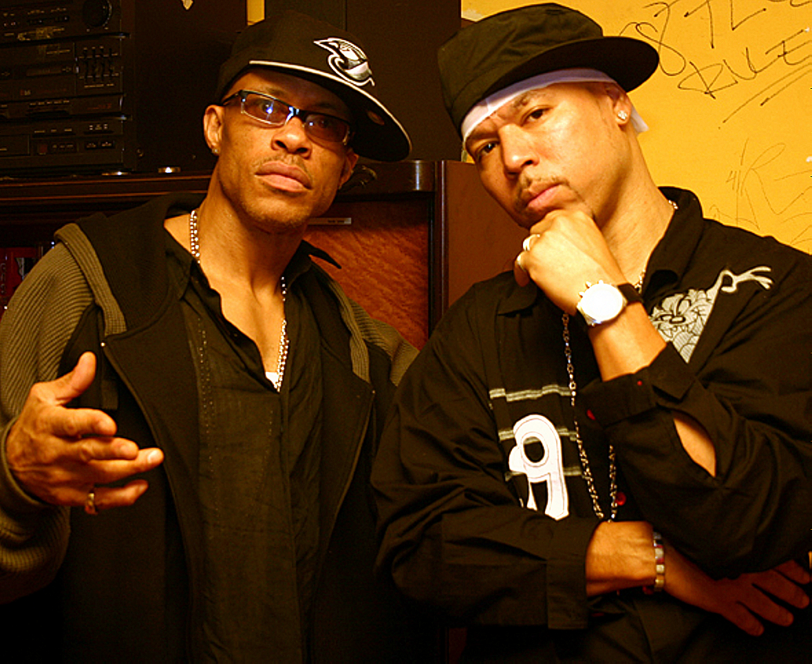 US-Rapper Guru of Jazzmatazz/Gang Starr fame with producer and rapper Solar (right) in 2006